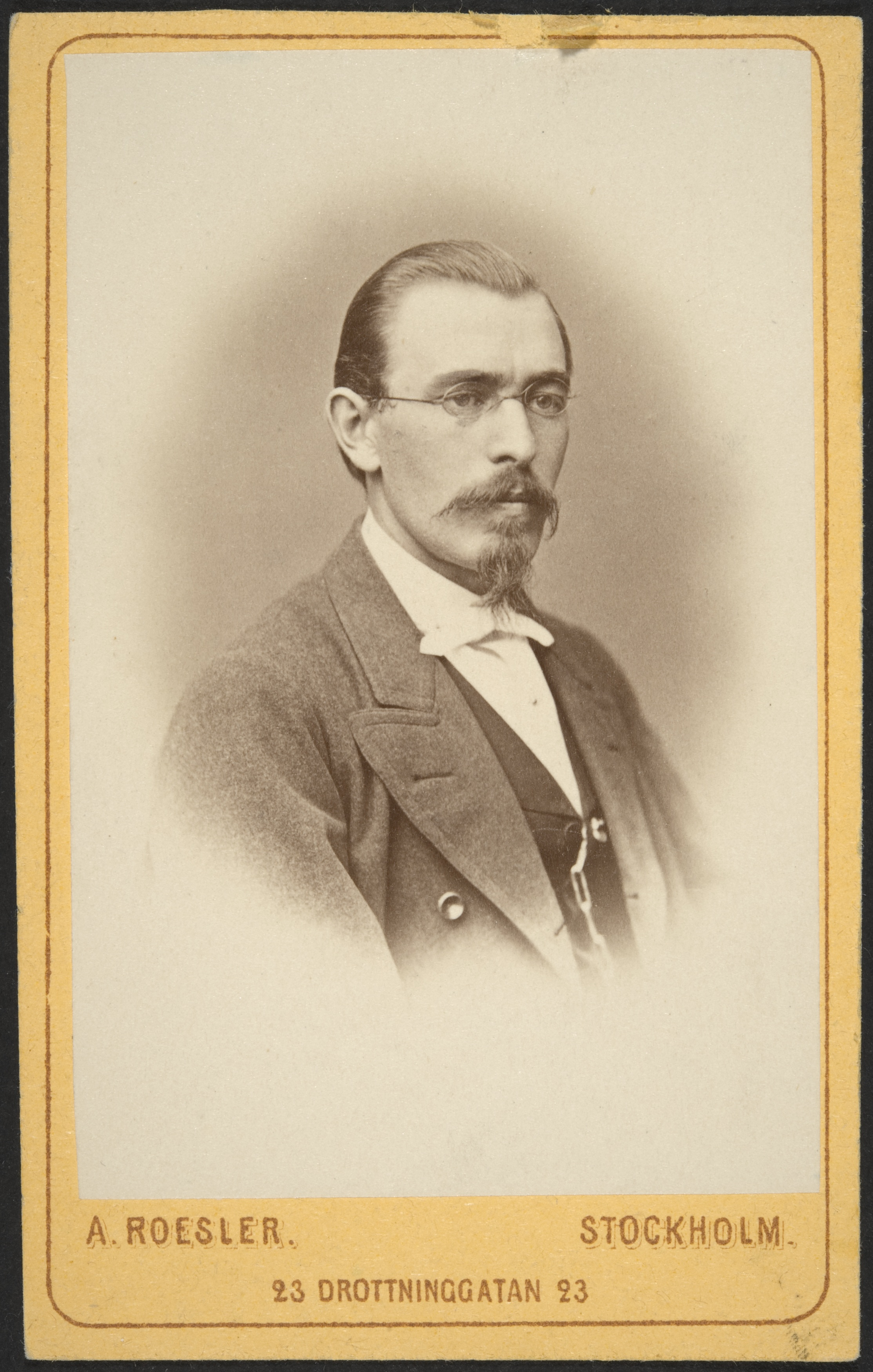 August Sundell, Professor at the University of Helsinki.